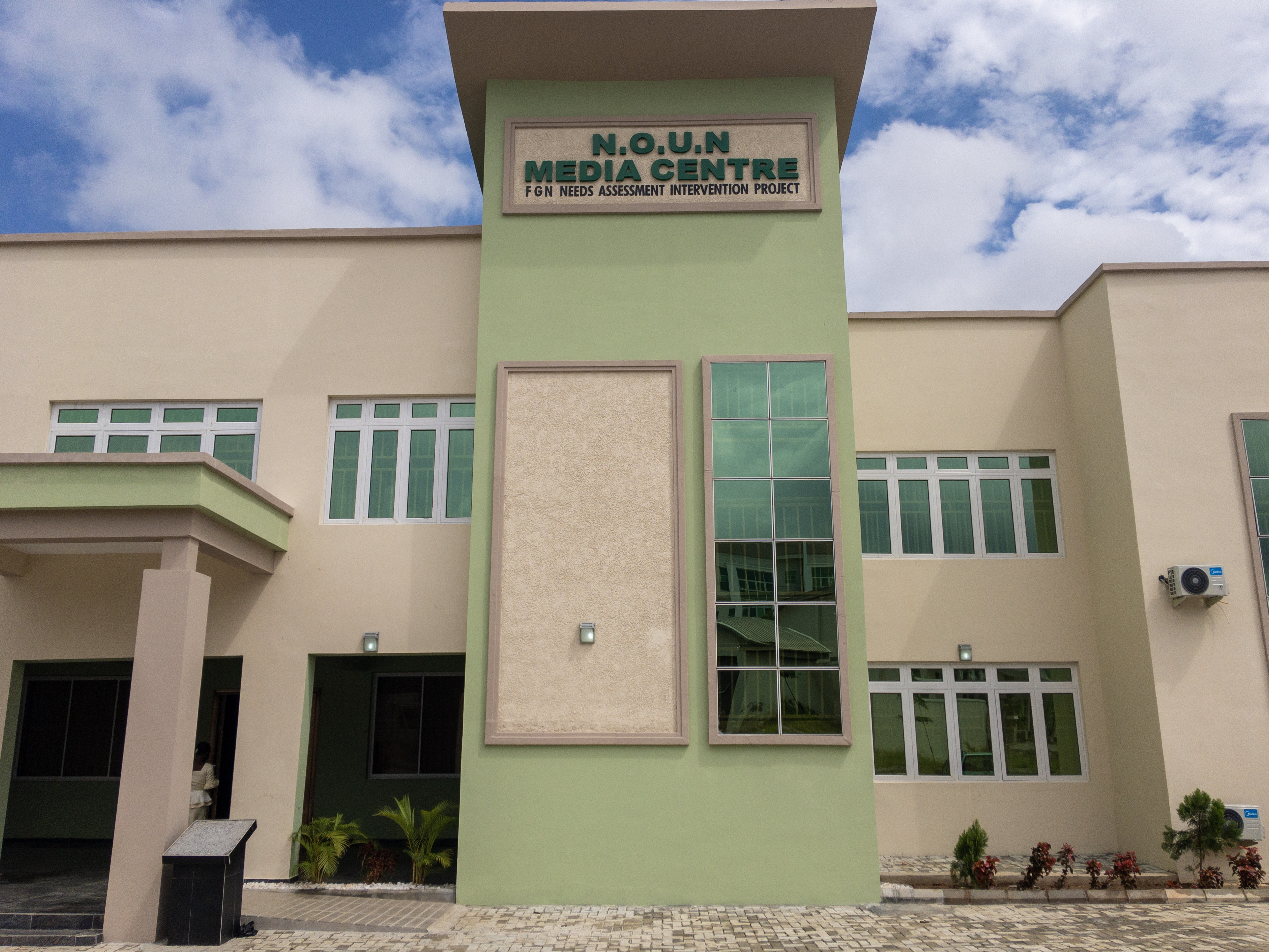 Media centre at National Open University of Nigeria